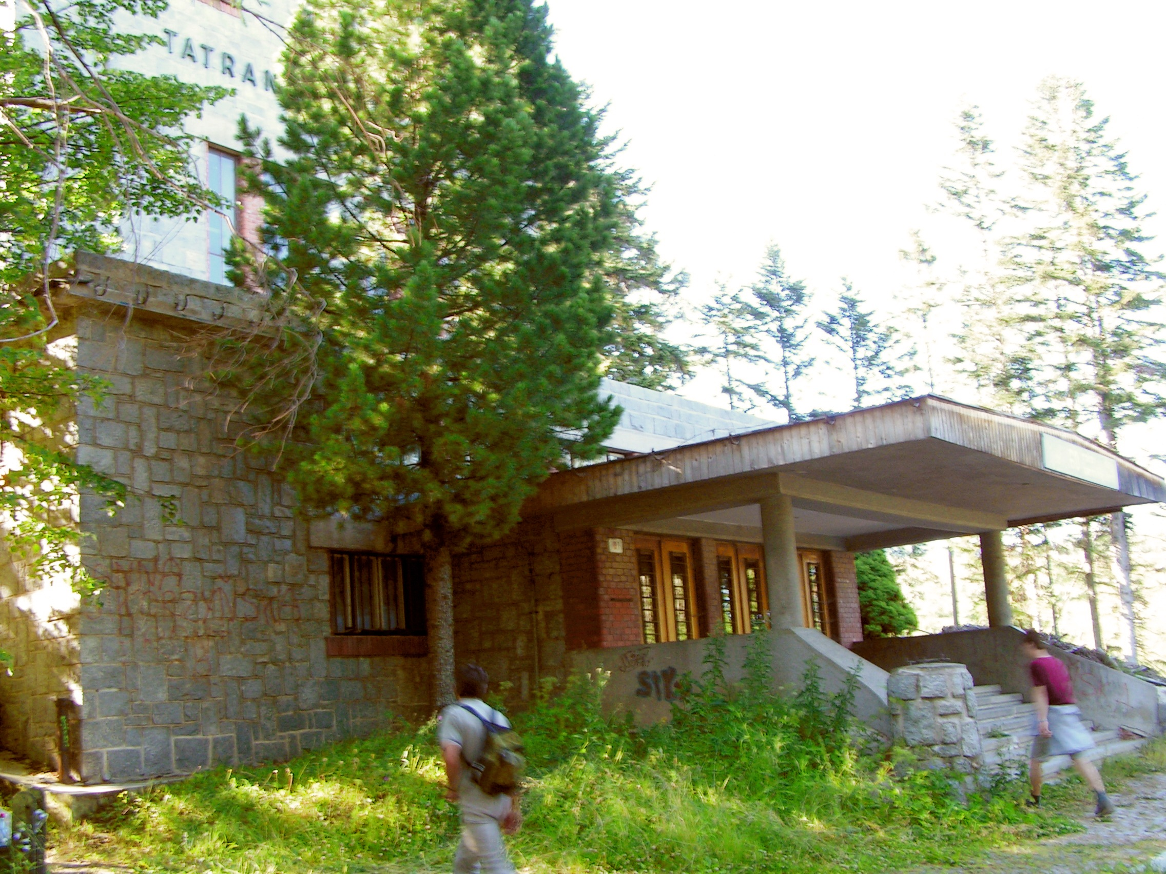 Station Tatranská Lomnica. Valley station of Tatranská Lomnica–Lomnický štít cableway. Public Enter.